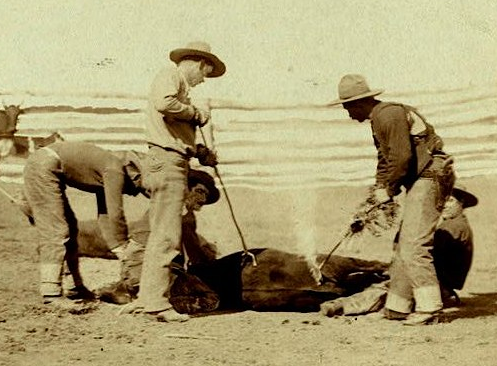 Cowboys branding a calf in fenced area. South Dakota, 1888.